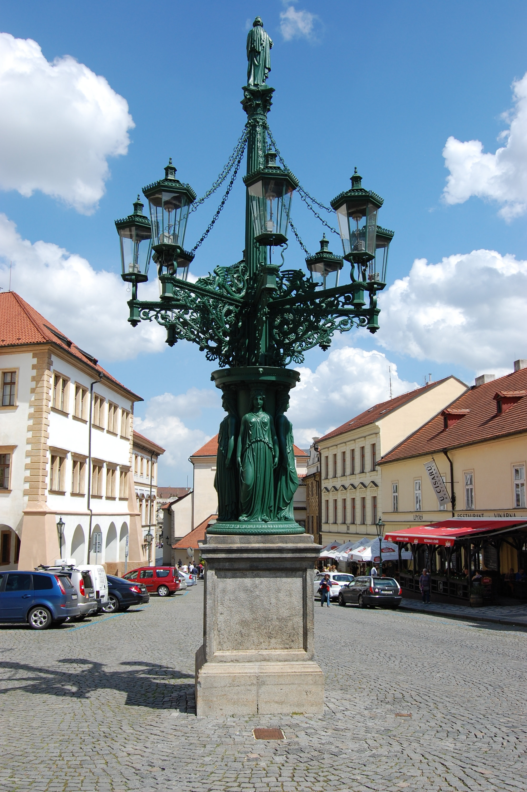 Prague 1, Czech Republic